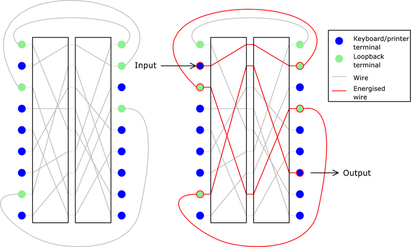 An illustration of a loopback rotor machine, such as the HX-63. Original diagram by User:Matt Crypto using Dia.